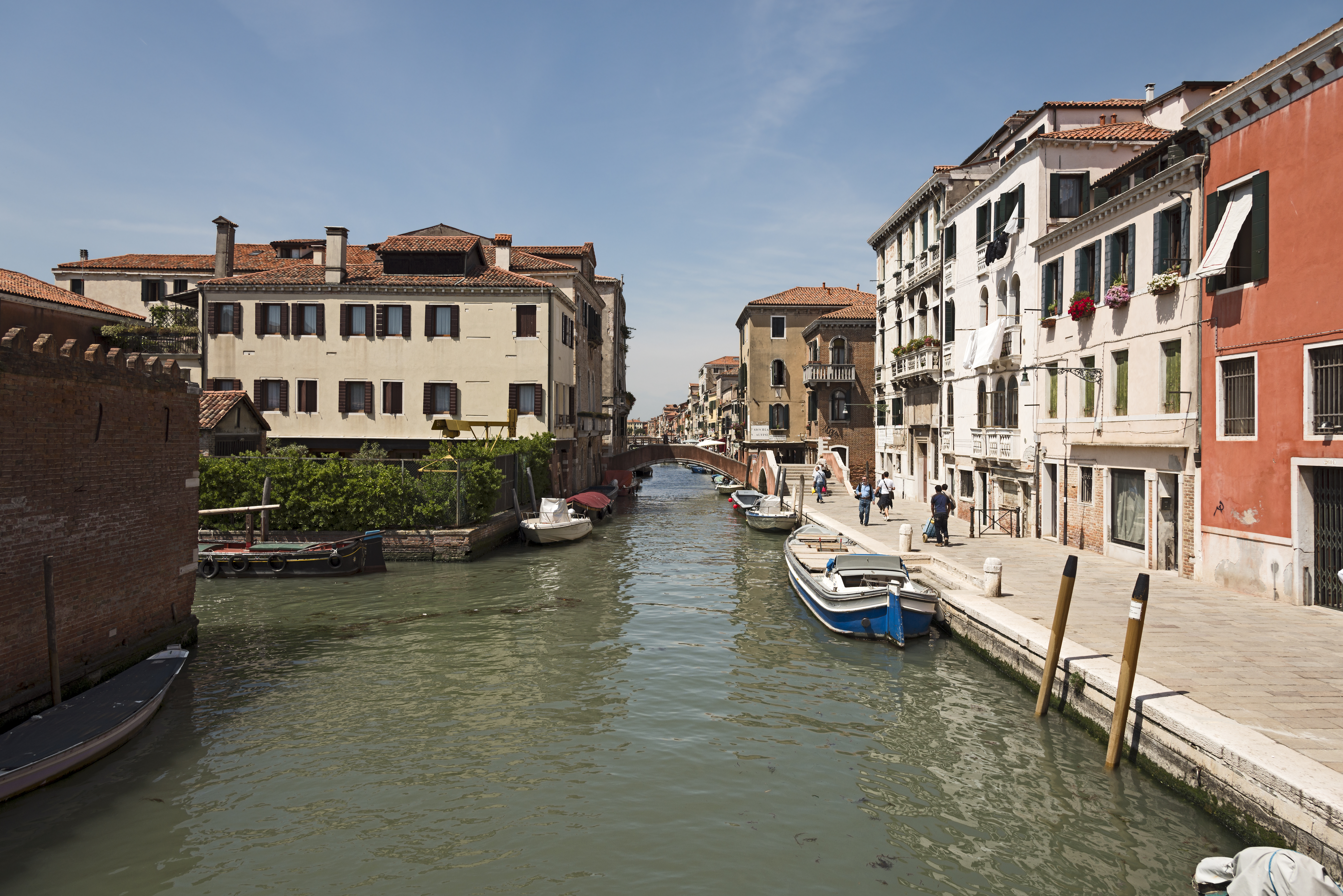 End of Rio della Misericordia to Venice. View of the Ponte di Betania, at the conjunction between the Rio dei Servi and the Rio de San Girolamo.